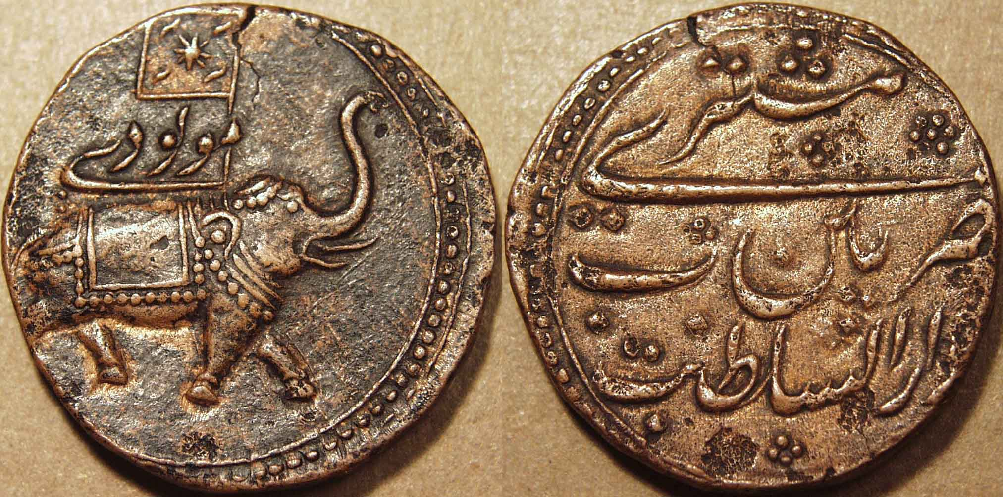 Double paisa of Tipu Sultan, undated, minted at his capital Patan (for Srirangapatnam, or Seringapatan).